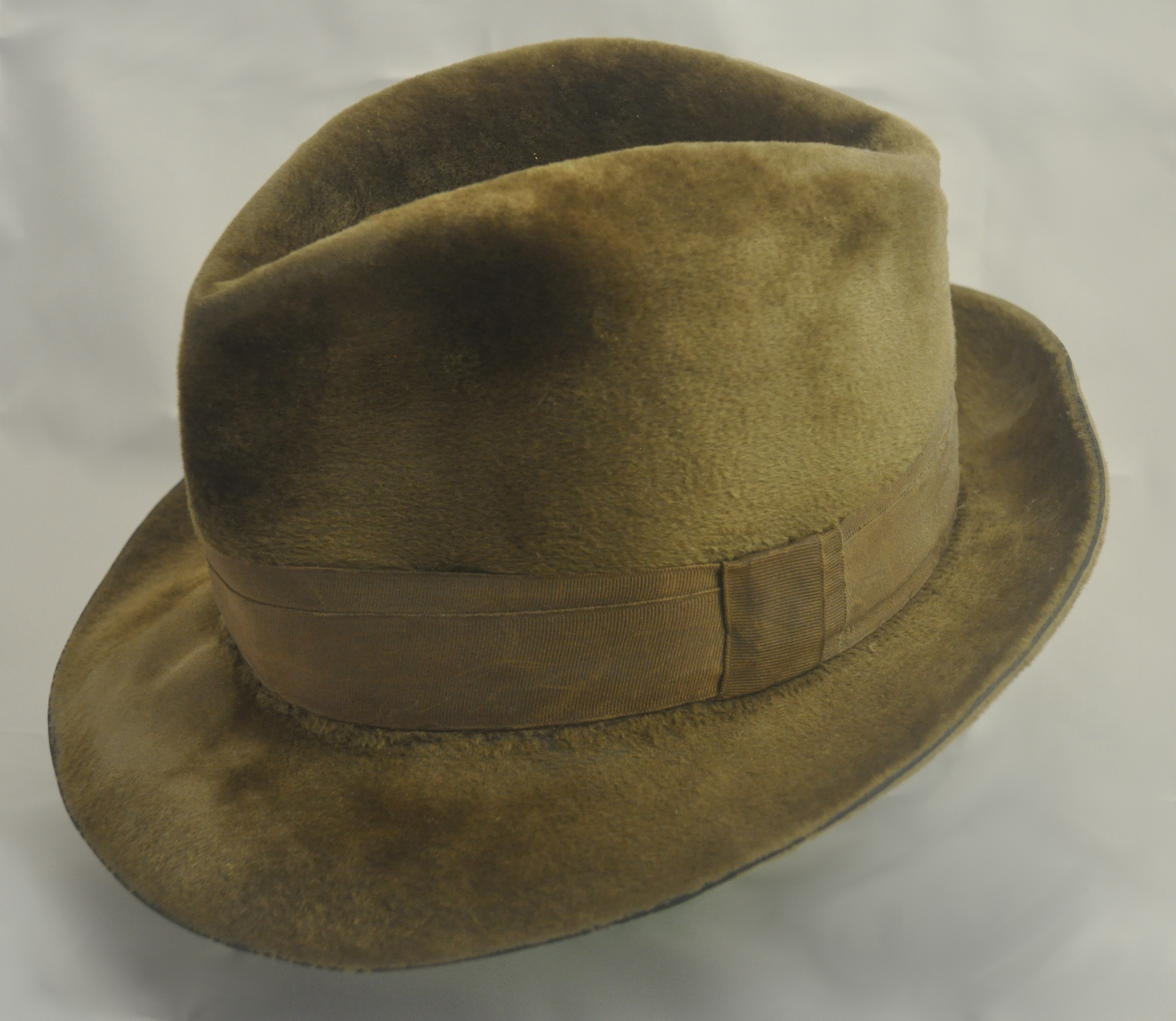 Hückel Superior Velour, likely from 1930s. Some labels: Paris Grand Prix 1900 (a prize Hückel company won) 1799 (year of company funding) Warszawa 6 Nova..... (Place the hat was sold at?)